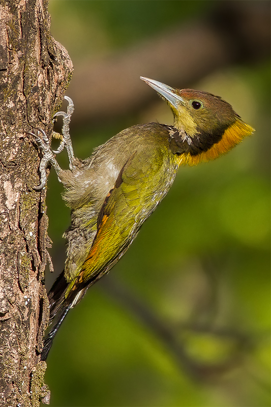 Greater Yellownape | Ghatgarh, Uttarakhand, India